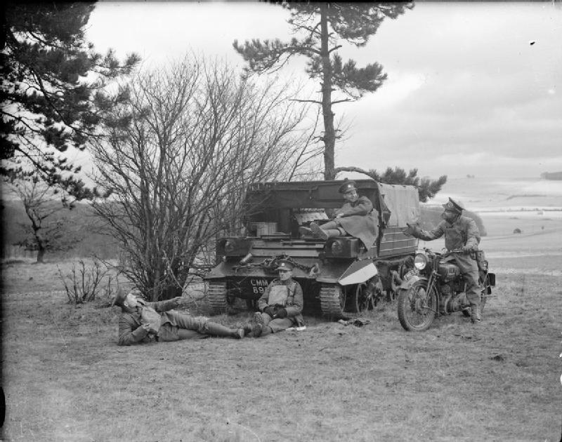 The British Army in the United Kingdom 1939-45 Dragon machine-gun carrier, Norton motorcycle and men of the Rifle Brigade, Salisbury Plain, 1939.